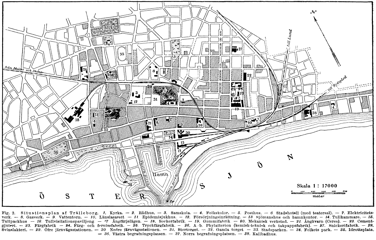 map Trelleborg about 1930